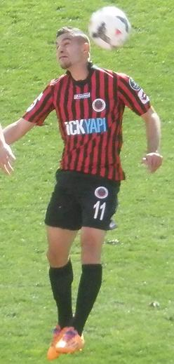 Mervan Çelik, Swedish footballer.